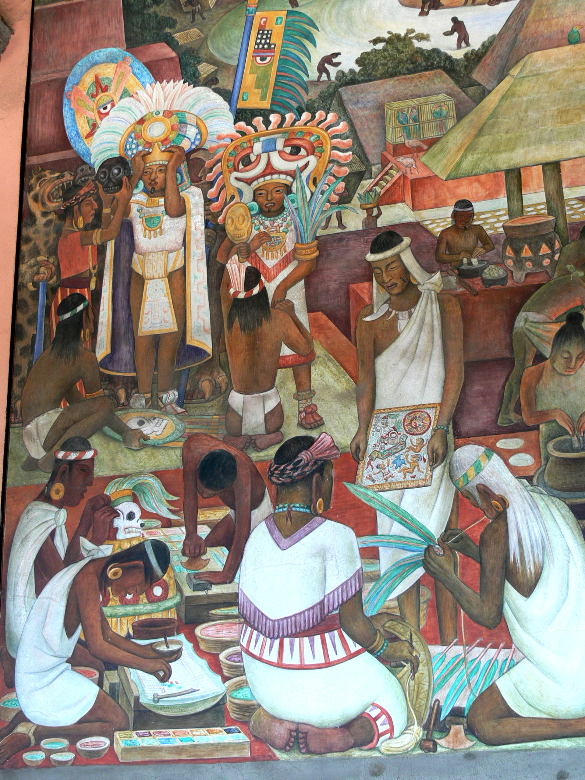 Mexico City - Palacio Nacional. Mural by Diego Rivera showing the life in Aztec times e.g. the art of paper production.